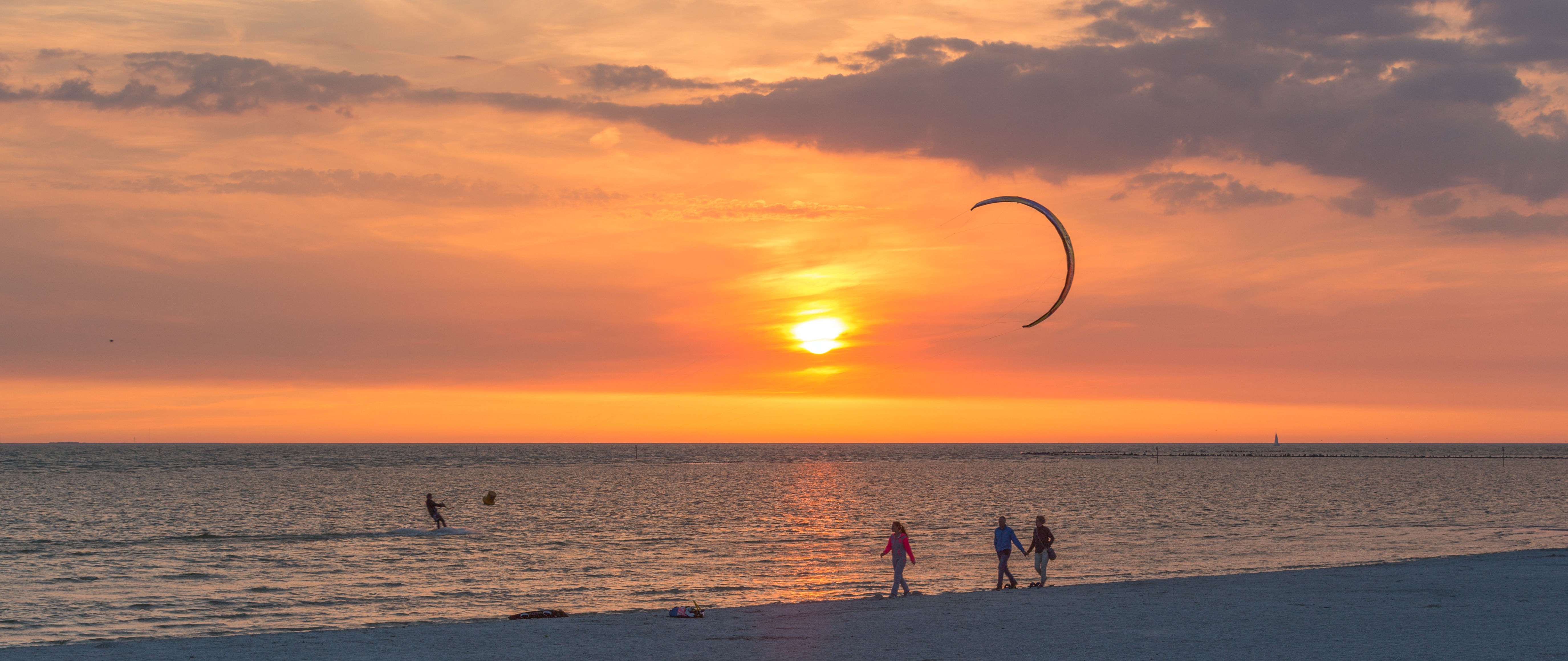 Kitesurfer at sunset, Workum, may 2017